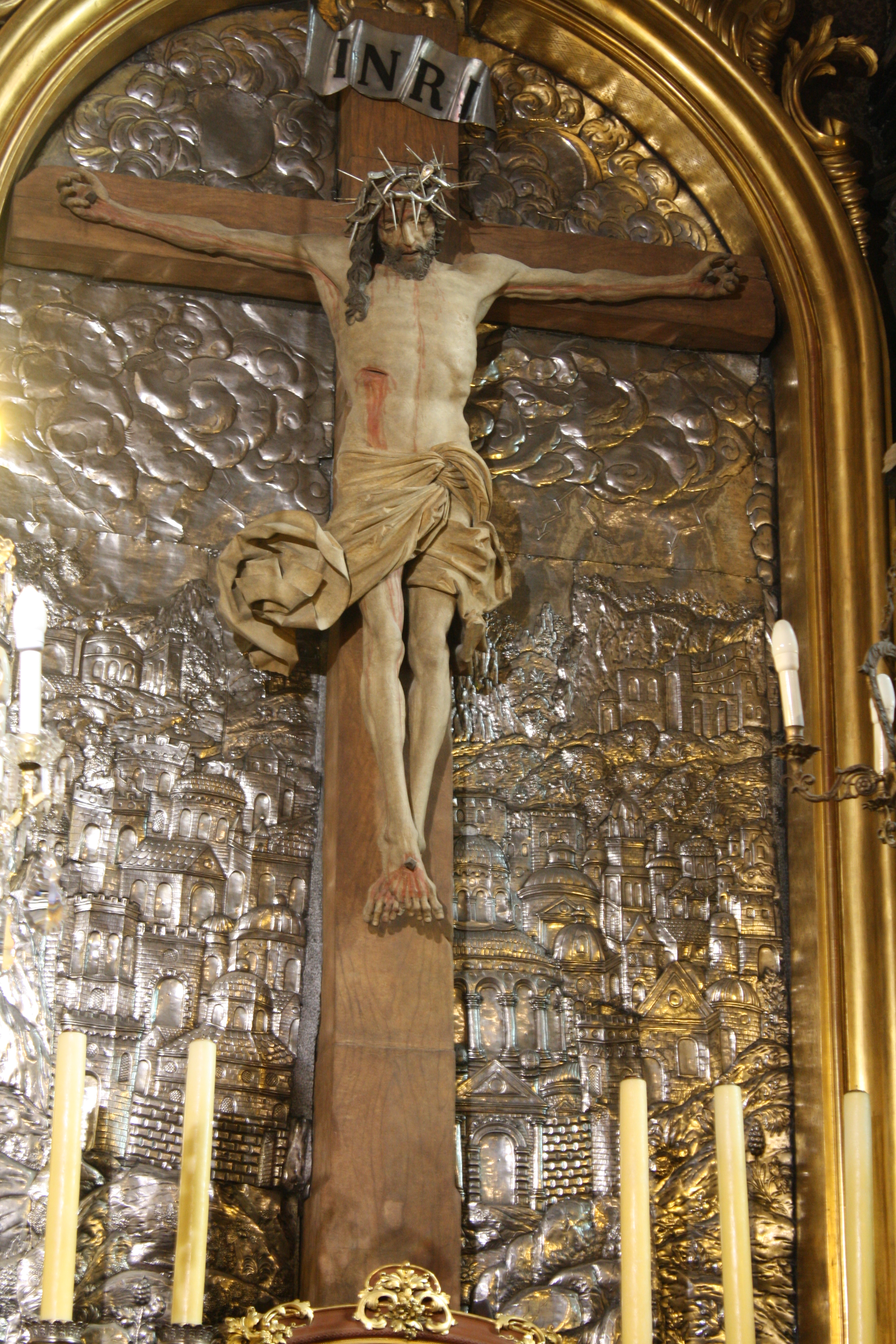 Stone crucifix in St. Mary Church in Cracow. Work of Veit Stoß